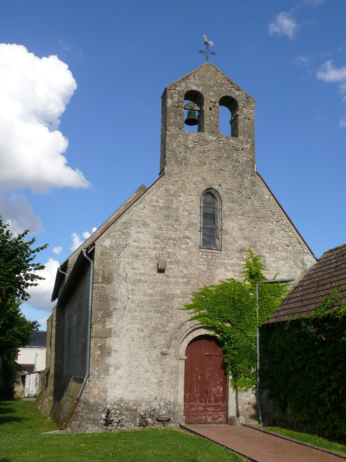 Saint-Peter's church of Intville-la-Guétard (Loiret, Centre-Val de Loire, France).